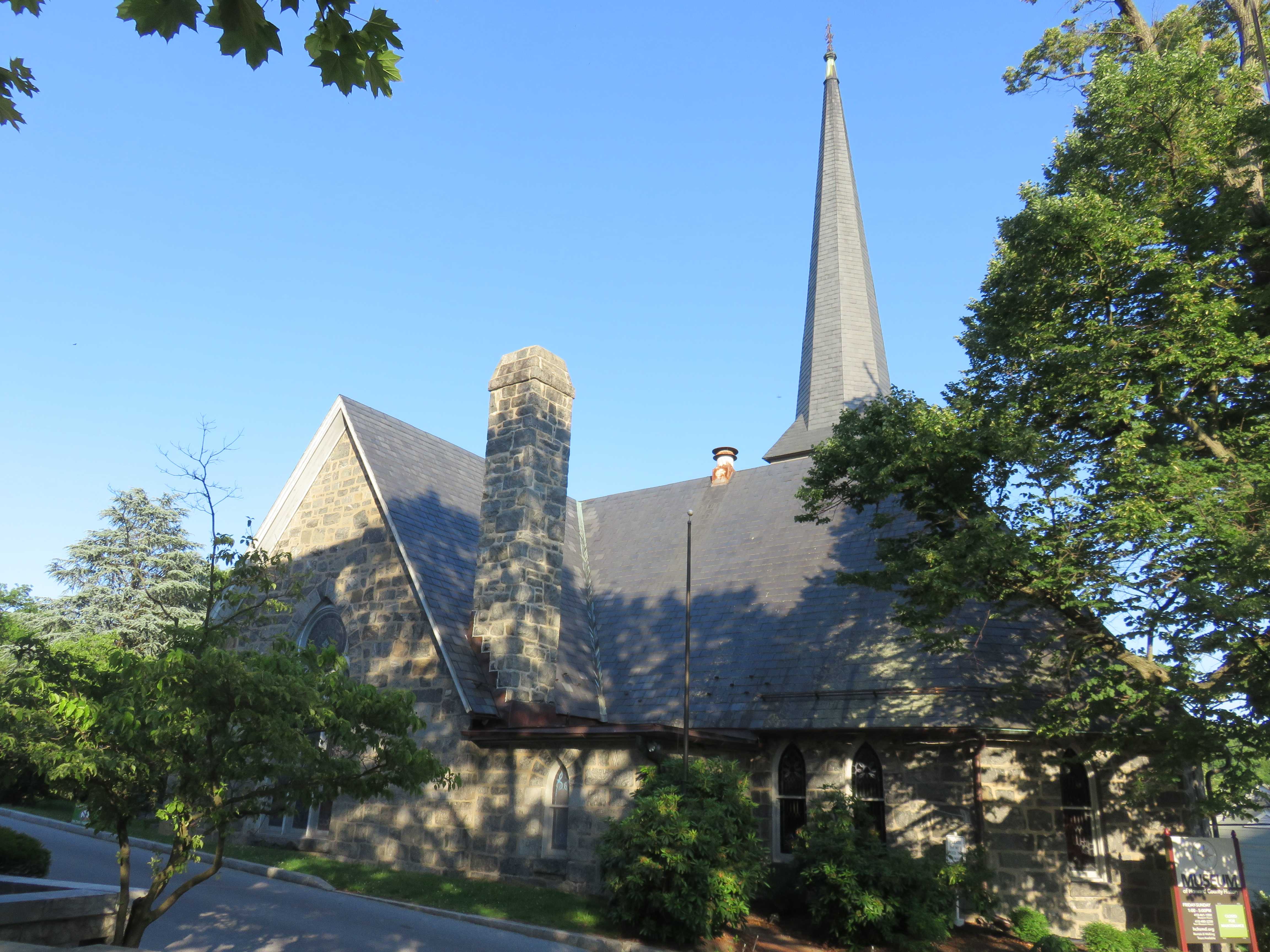 First Presbyterian Church in Ellicott City, Maryland in 2020